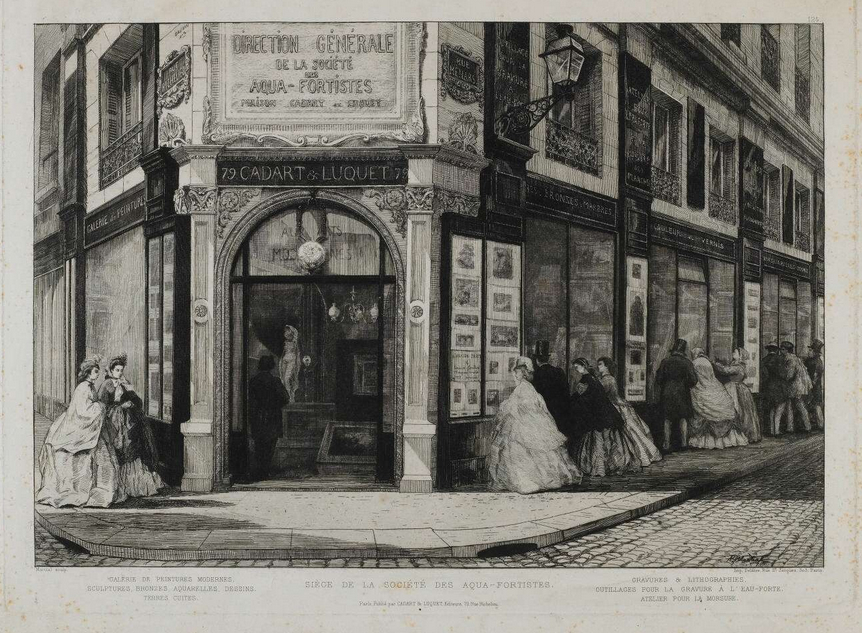 Siège de la Société des aquafortistes ["Aux Arts modernes"], eau-forte signed "AP Martial" [at the right down corner] : this shop was located in Paris, 79 rue de Richelieu, established by Alfred Cadart and Luquet.